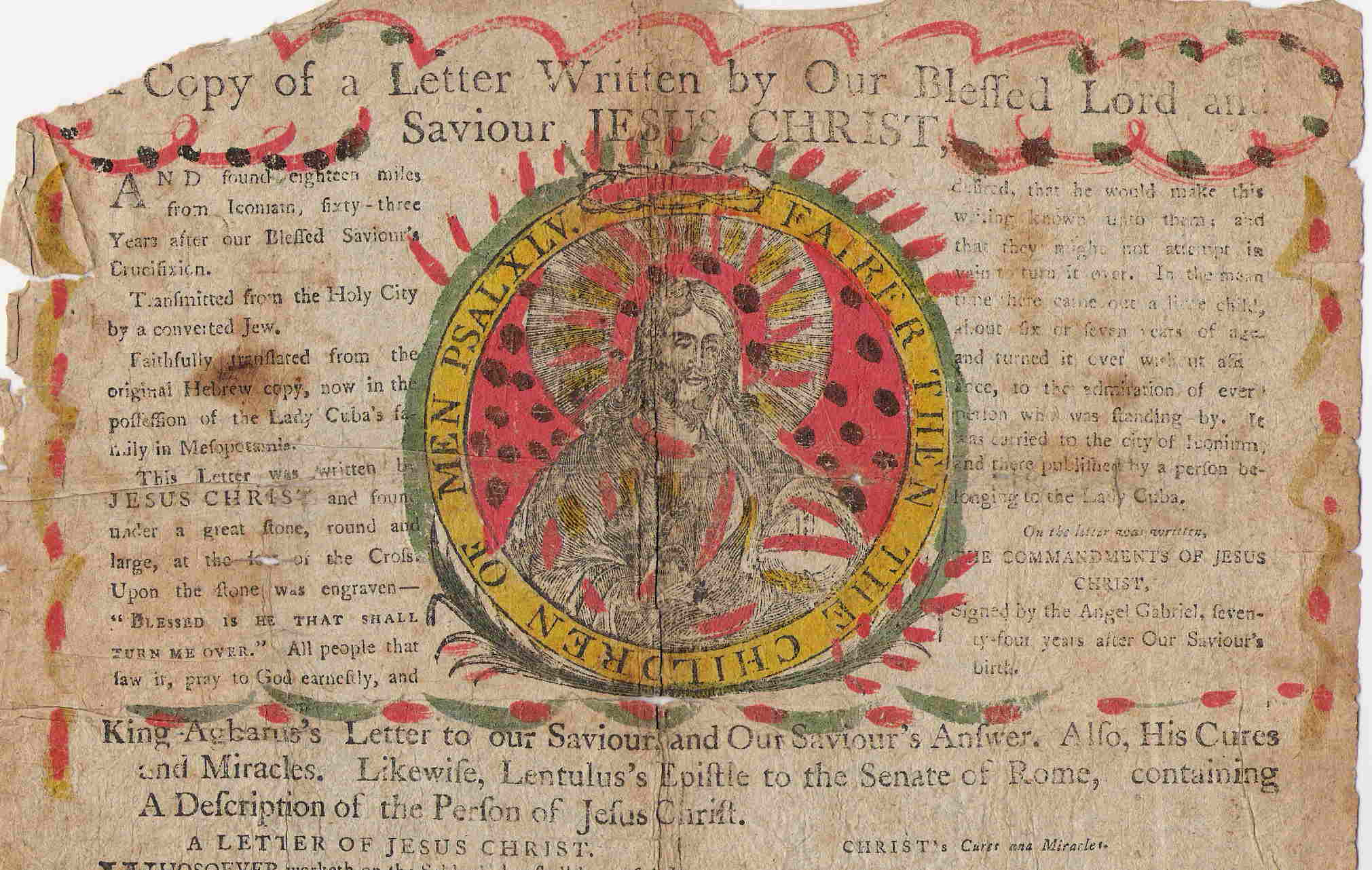 Top portion of a "Letter from Heaven," produced in England. See full text here.